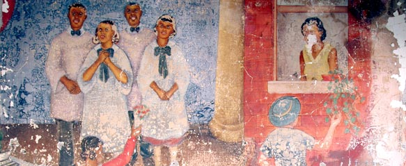 Detail of 'Recreation in Harlem', a mural executed at Harlem Hospital Center in New York City in 1936 by Georgette Seabrooke and restored in 2012.